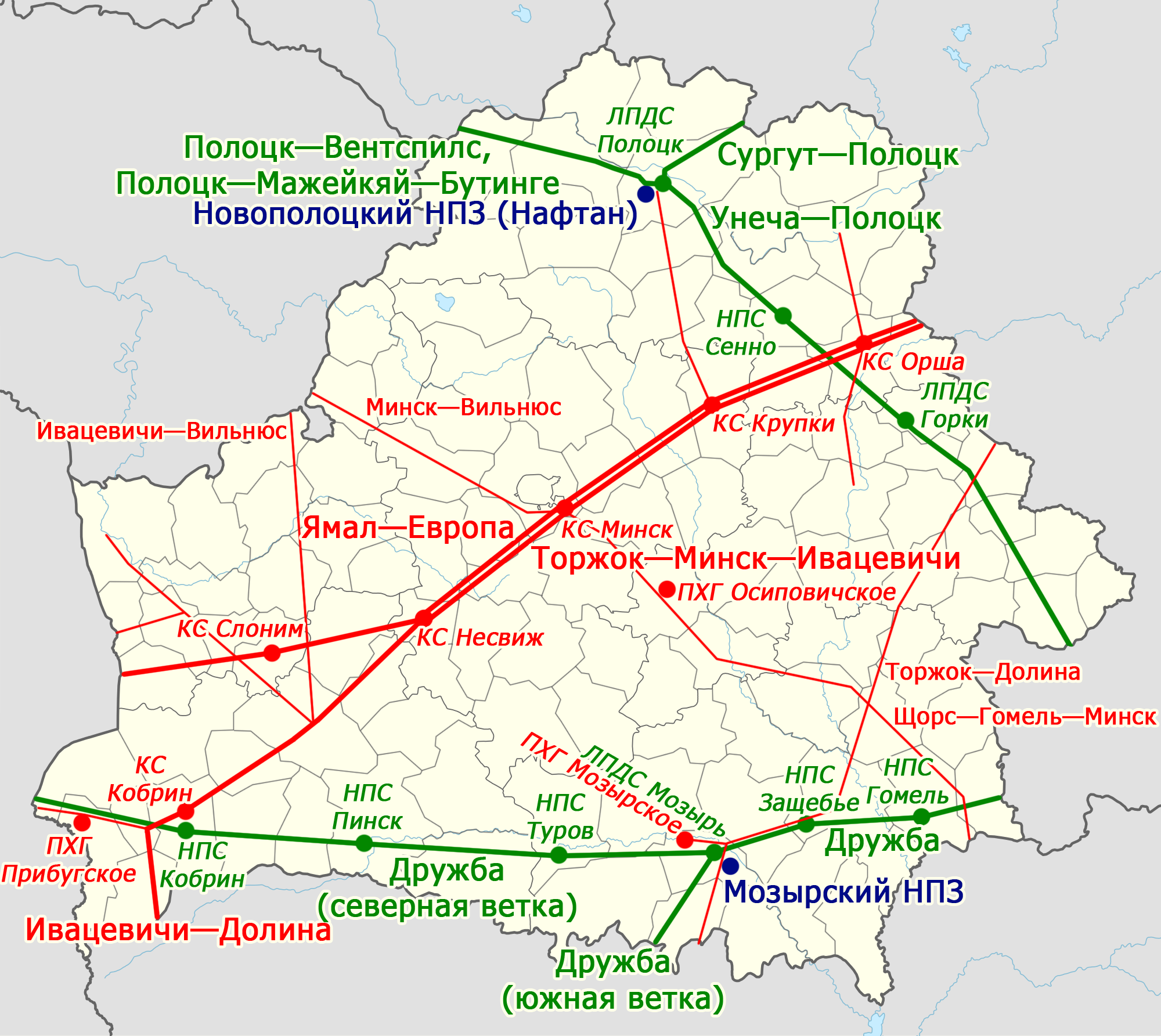 Major gas and oil pipelines in Belarus. Gas pipelines are in red, oil pipelines are in green, oil refineries are in dark blue.